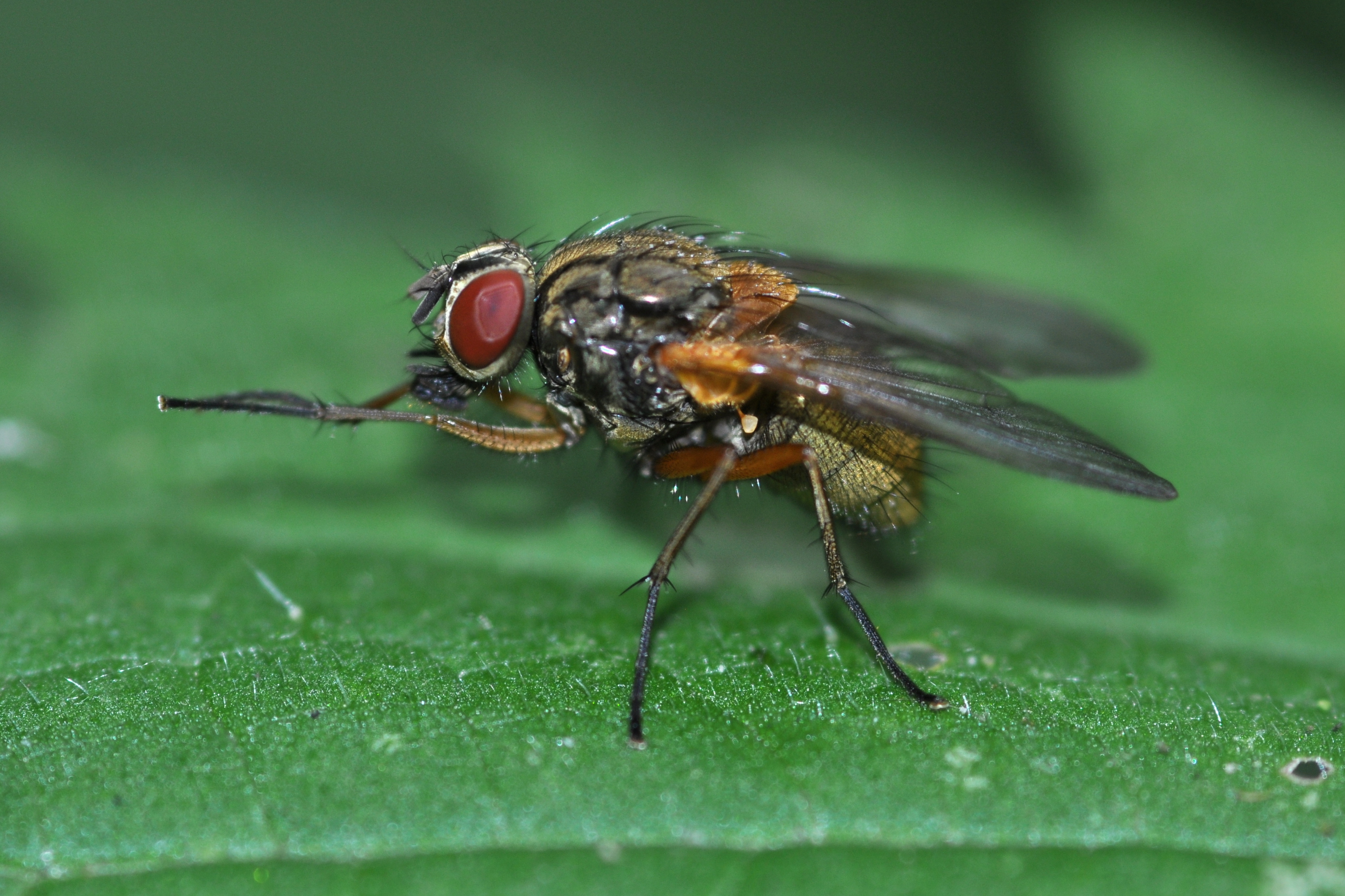 Probably Mydaea corni in Kirchwerder, Hamburg